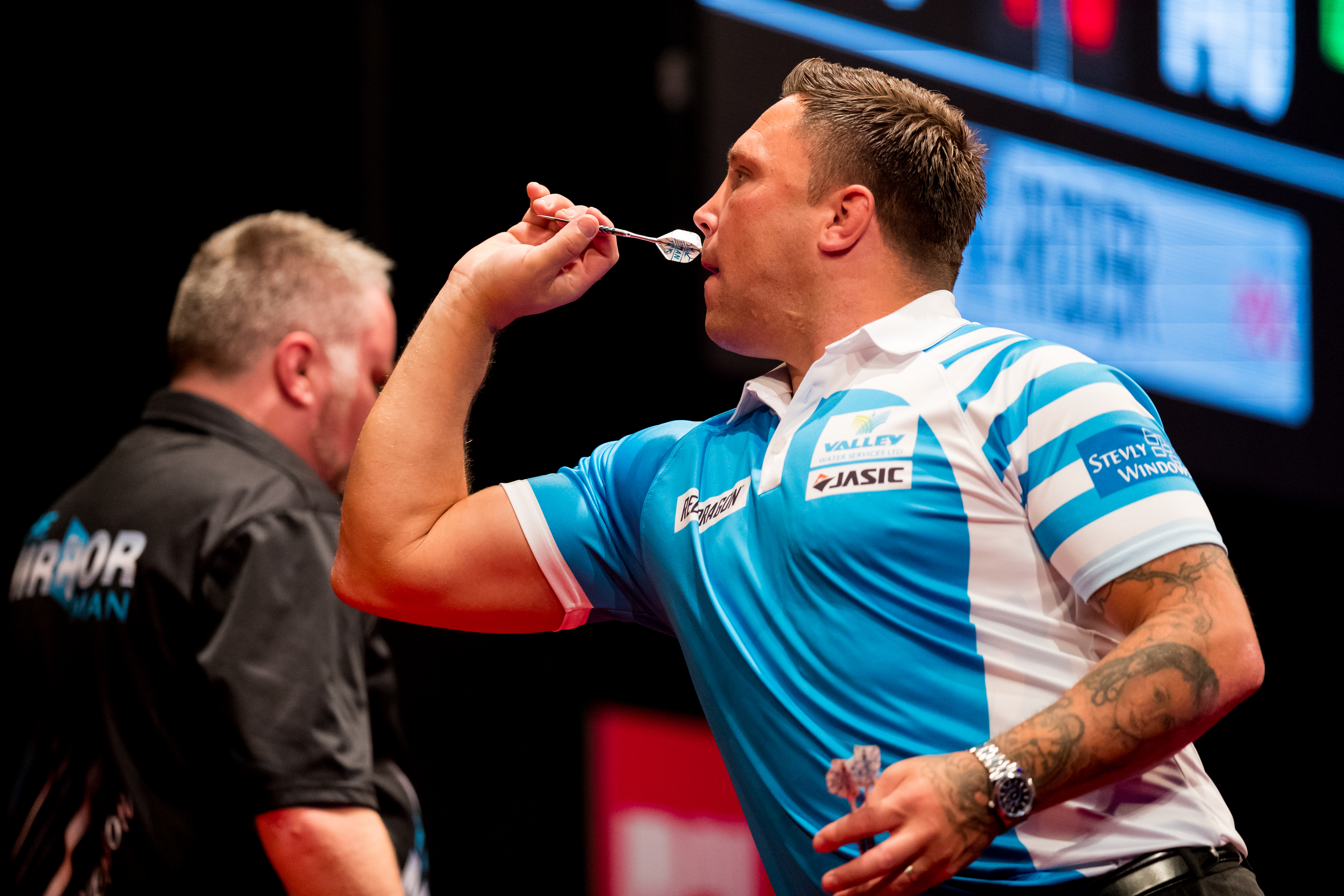 Gerwyn Price 6:3 Simon Stevenson during PDC Europe Darts Matchplay at Maimarkthalle, Mannheim, Baden-Württemberg, Germany on 2019-09-07, Photo: Sven Mandel